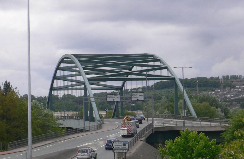 Scotswood Bridge taken from Hadrains cycle way